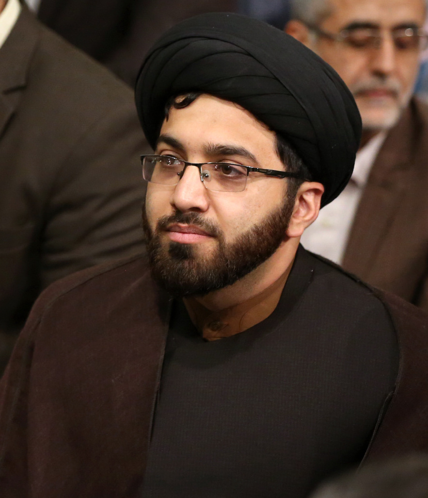 Sayyed Mohammad Hossein Tabatabaei in Imam Khomeini Hussainiya